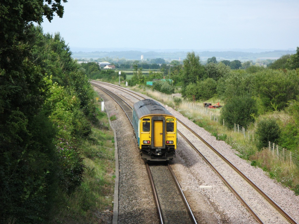 A First Great Western service from Taunton to Cardiff (operated by hired-in Arriva Trains Wales' 150279) passes the site of the closed Durston station in Somerset, England.